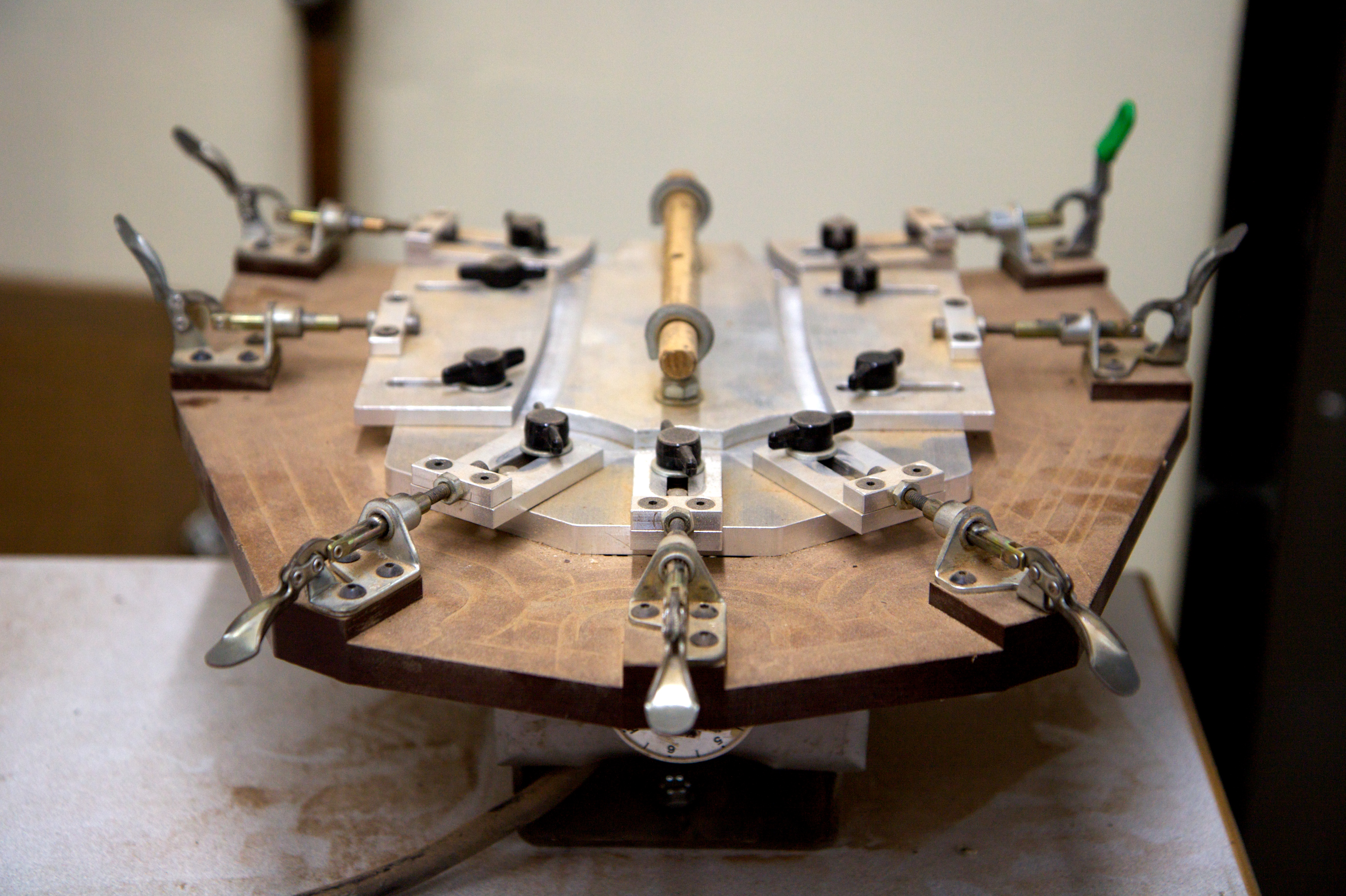 TGFT31 jig for acoustic guitar body - Taylor Guitar Factory